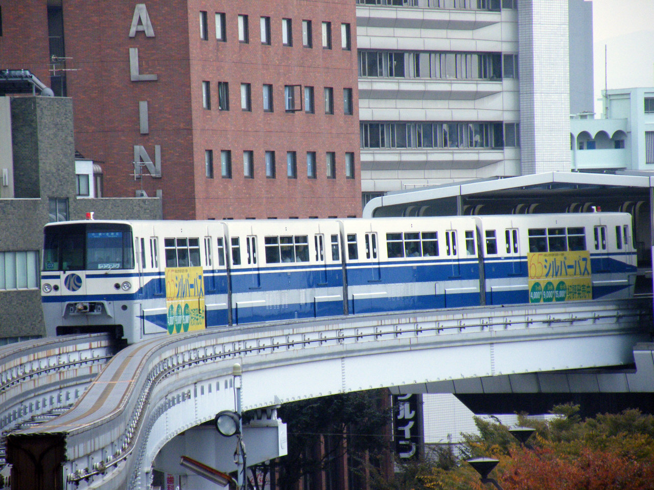 Kitakyushu Urban Monorail Type 1000